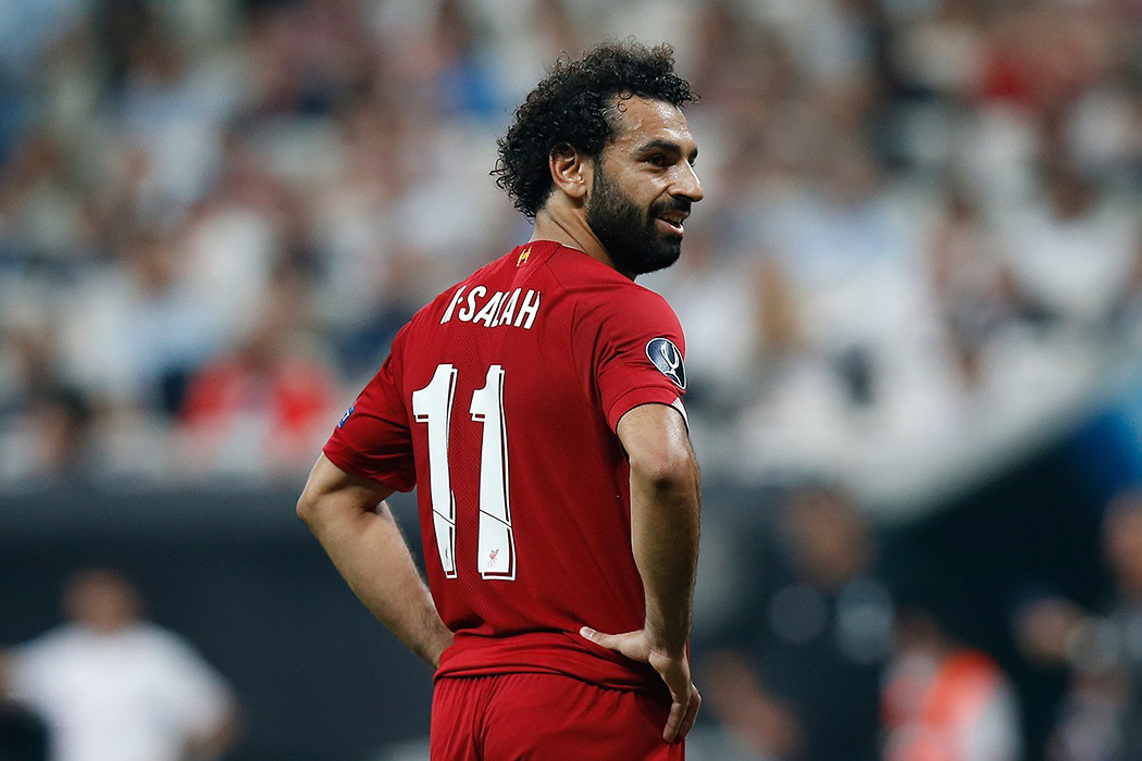 Liverpool vs. Chelsea, 2019 UEFA Super Cup